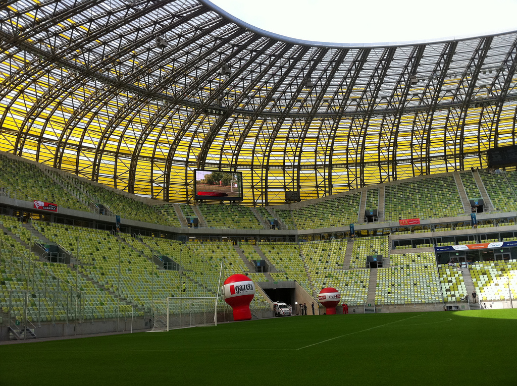 PGE Arena Gdańsk